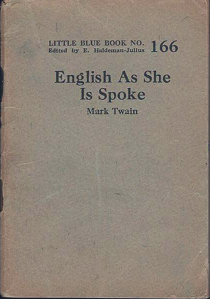 Book cover